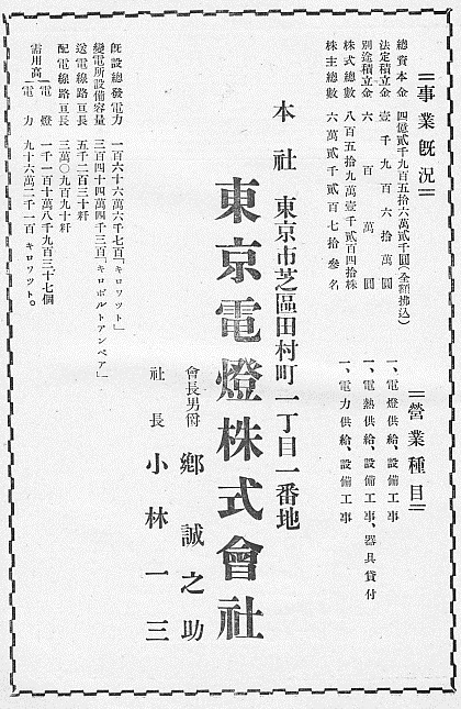 Tokyo Dento Company advertisement in 1930s